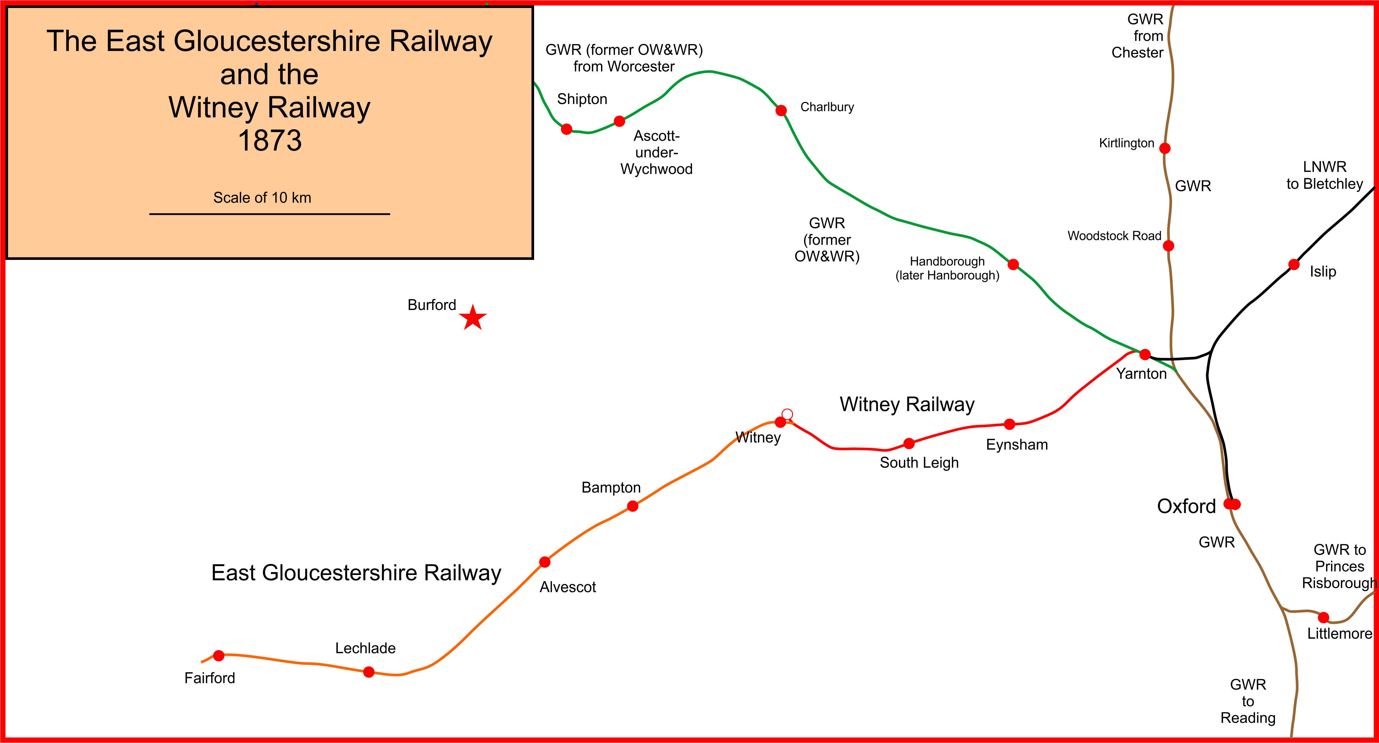 Map of the East Gloucestershire Railway system England on opening in 1873